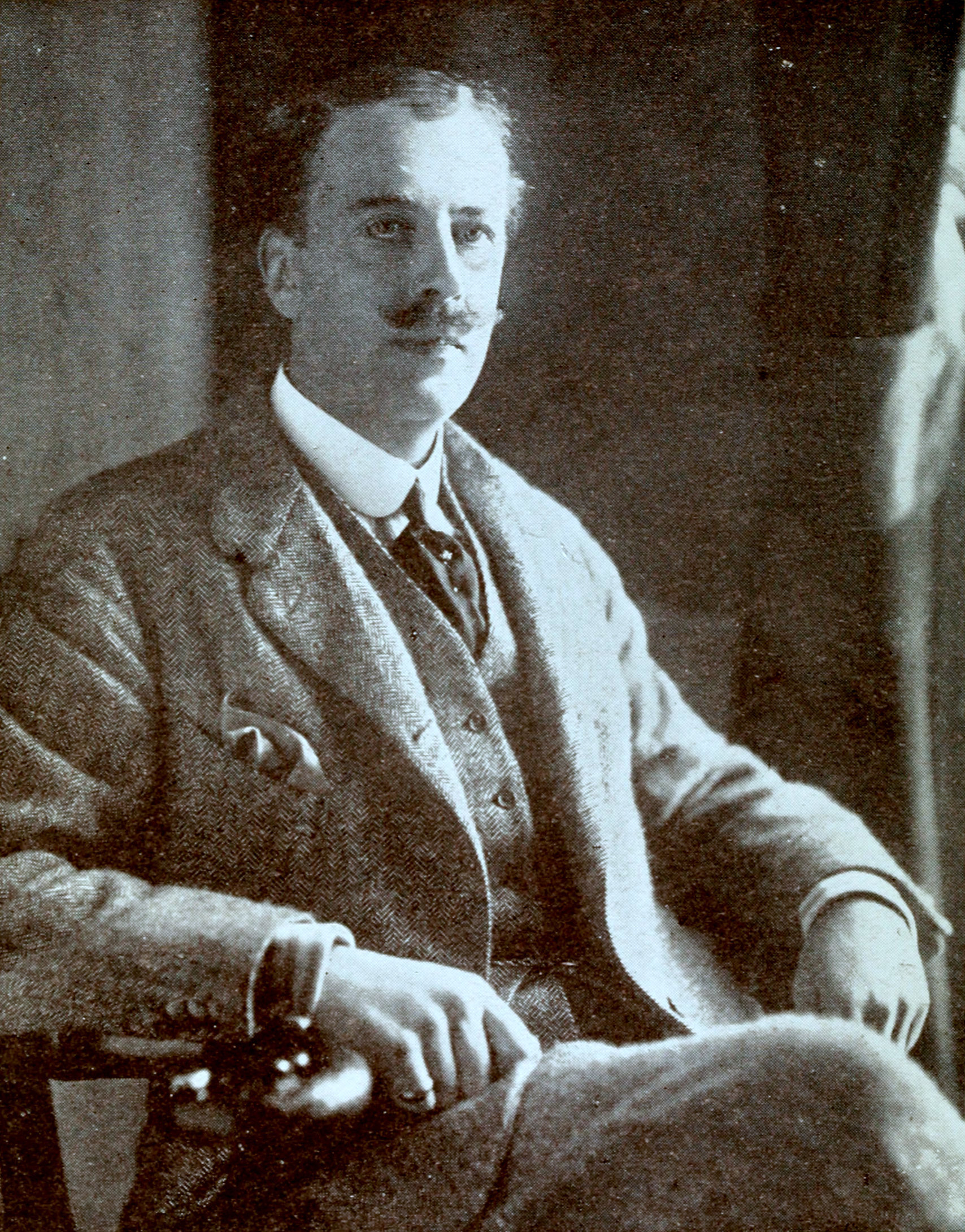 Studio photo of James Hamilton, 3rd Duke of Abercorn